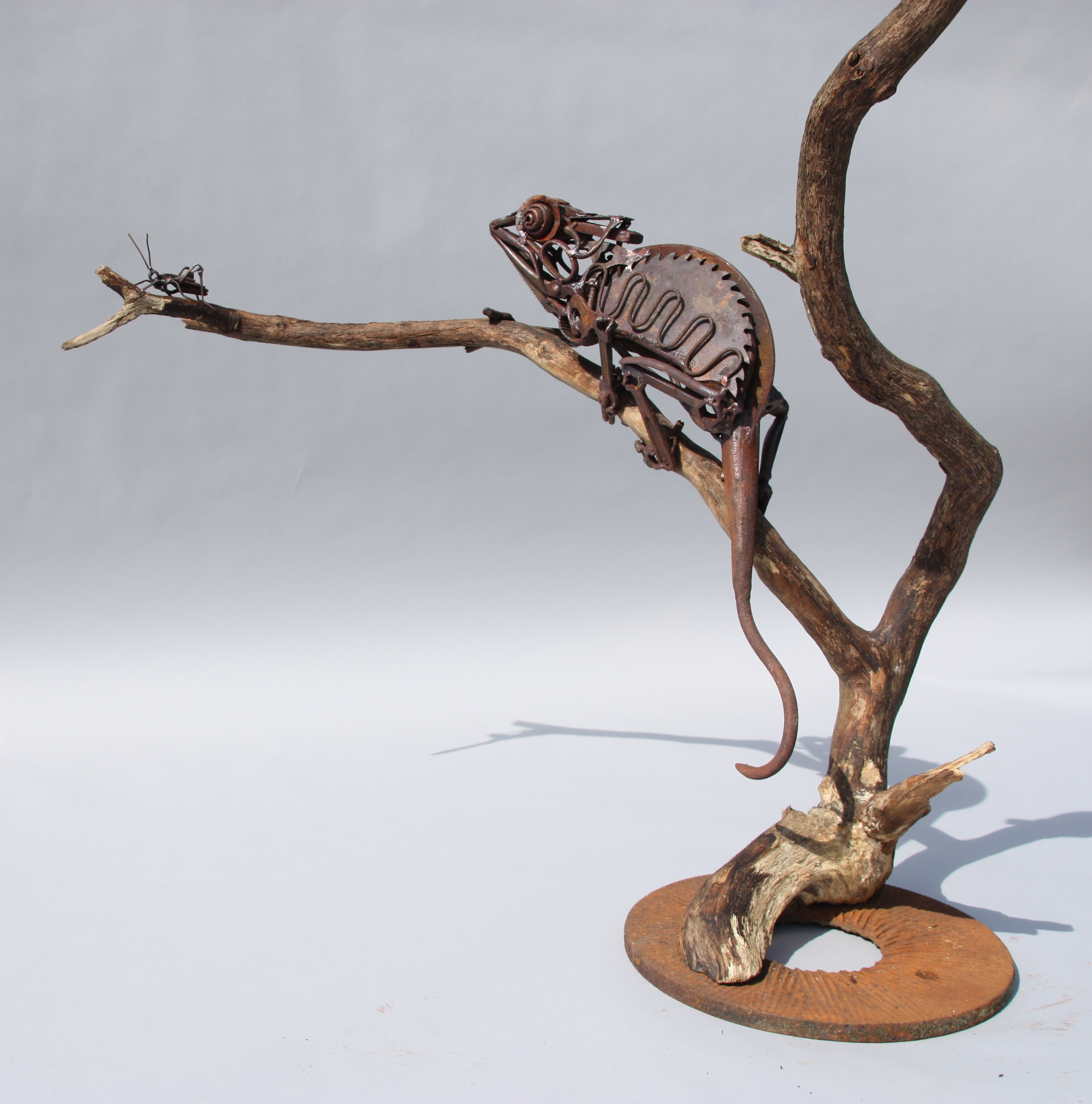 Sculpture of Chameleon by Harriet Mead PSWLA